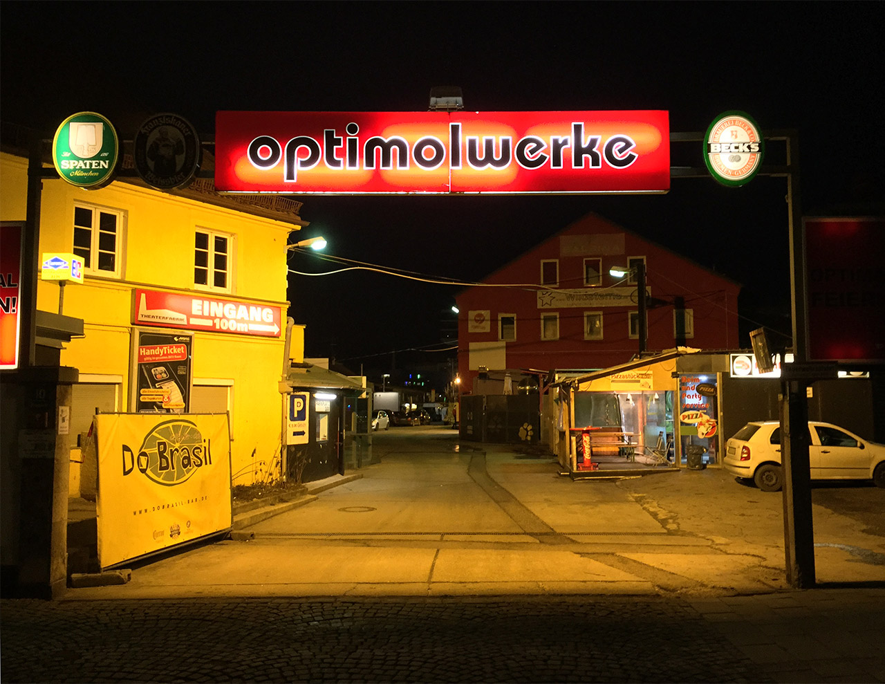 Entrance of the Optimolwerke club and party area in Munich, February 2017.